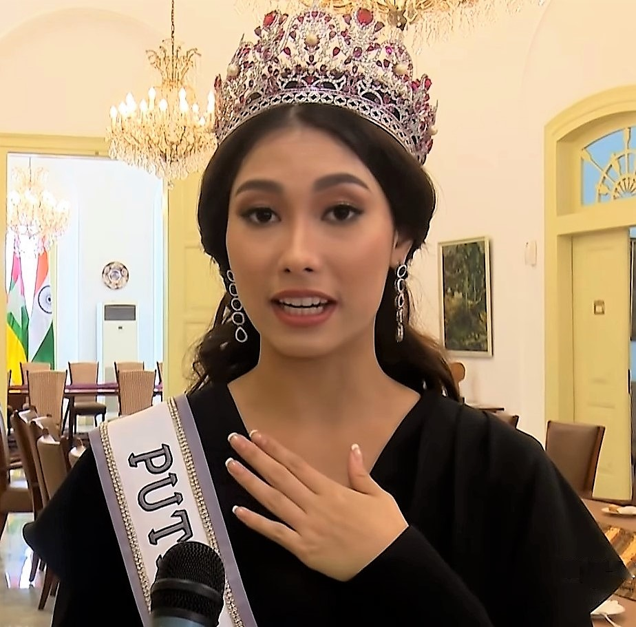 Beauty winner Frederika Alexis Cull, Puteri Indonesia 2019, in Bogor Palace after meeting with President Joko Widodo.